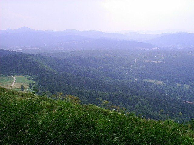 One of the main mountain ranges of the adratic coast, - Tuhobić and Bitoraj, Croatia